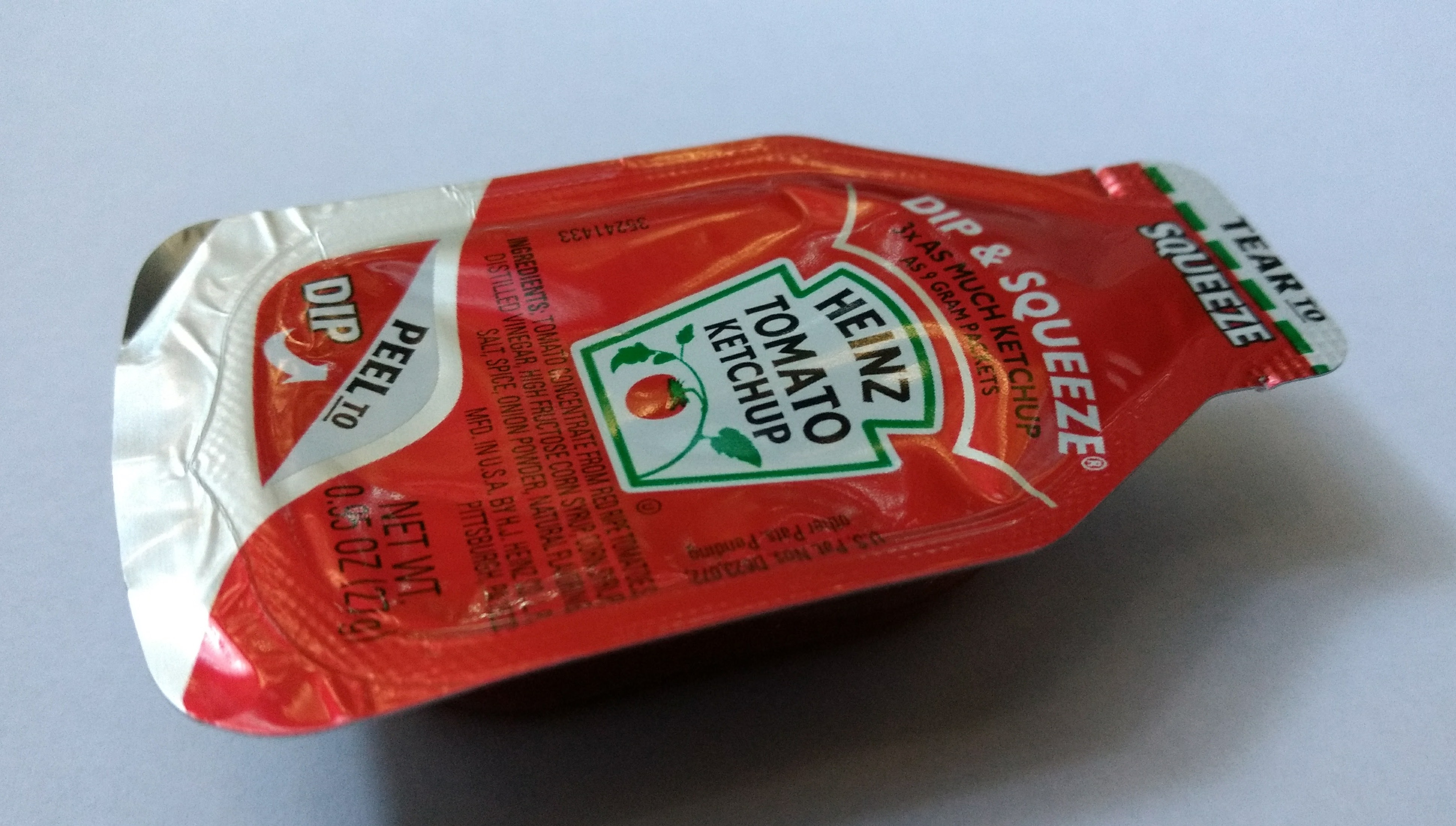 A container of Dip & Squeeze format Heinz Tomato Ketchup obtained from a fast food restaurant in the Seattle area